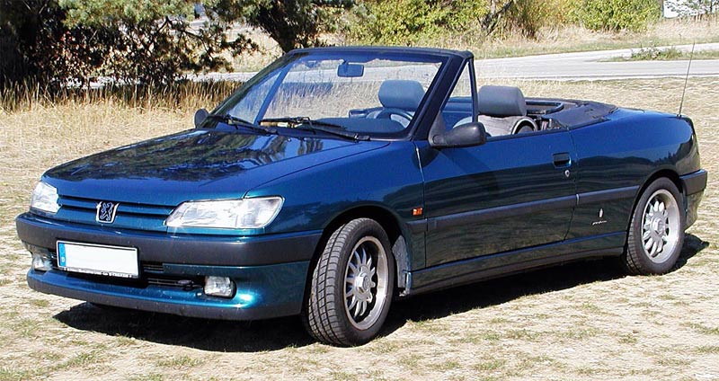 This picture shows a Peugeot 306 Cabriolet.